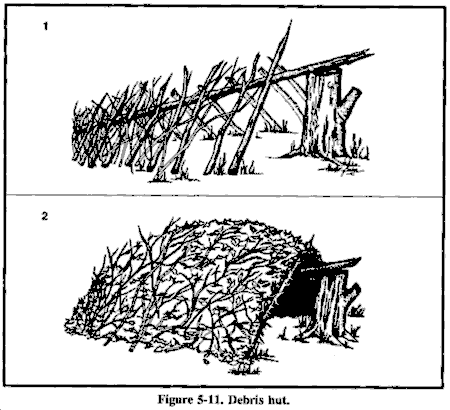 Illustration showing the construction of a debris hut, a type of shelter used in a survival situation. Taken from U.S. Army Field Manual, No. 21-76, Survival.